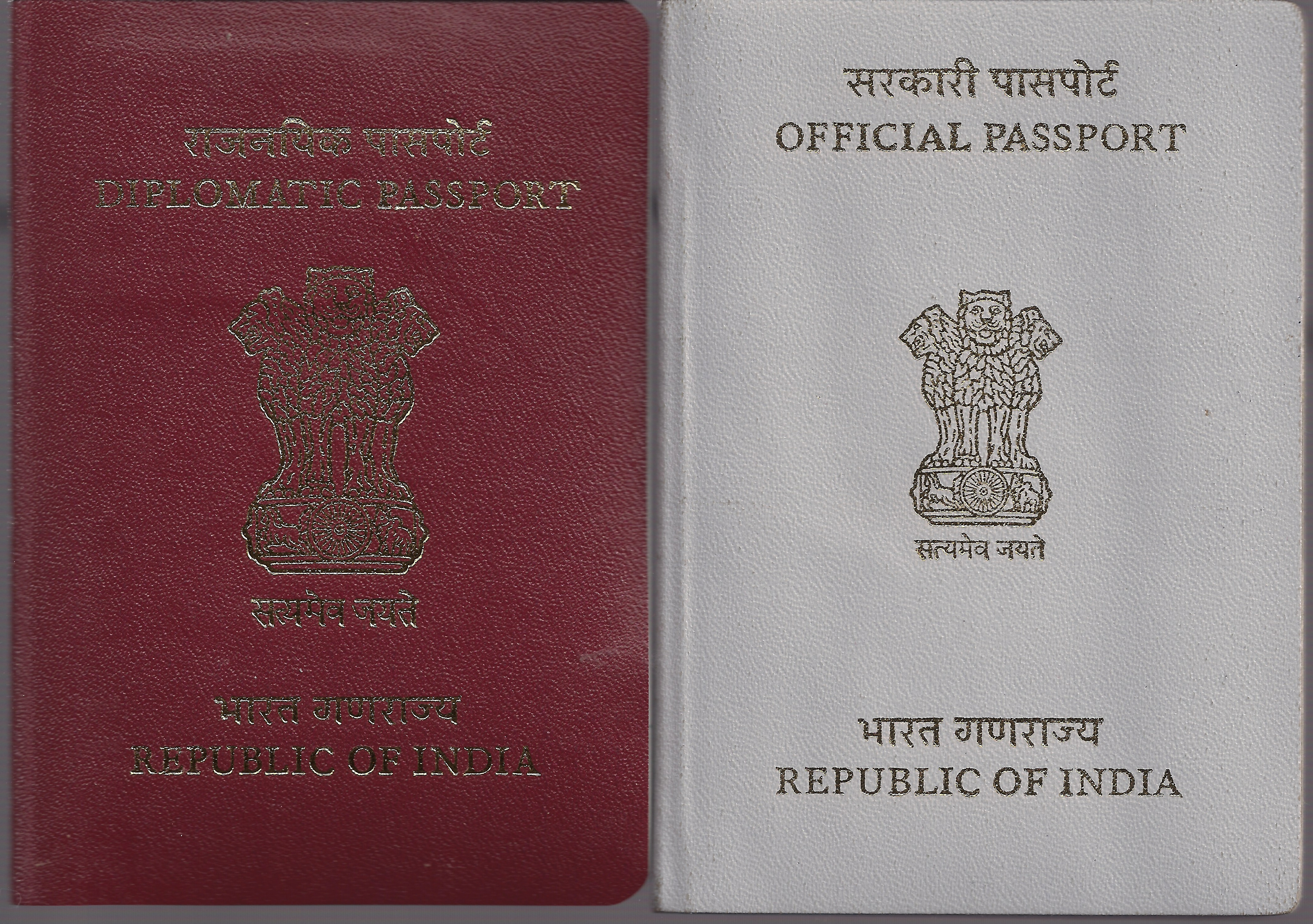 Scans of Indian Official and Diplomatic Passports